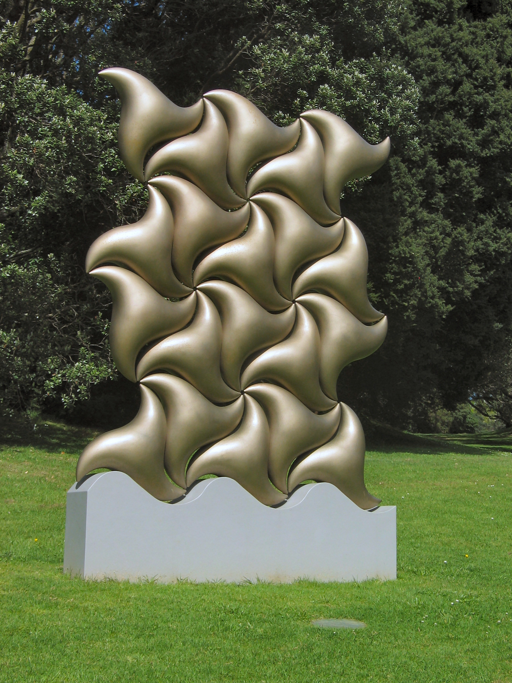 Sculpture in the Auckland Domain, Auckland, New Zealand. The sculpture is by Chiara Corbelletto, and was created in 2005. It is entitled "Numbers are the language of nature". The material is bronze. The photo was taken on September 30, 2006.